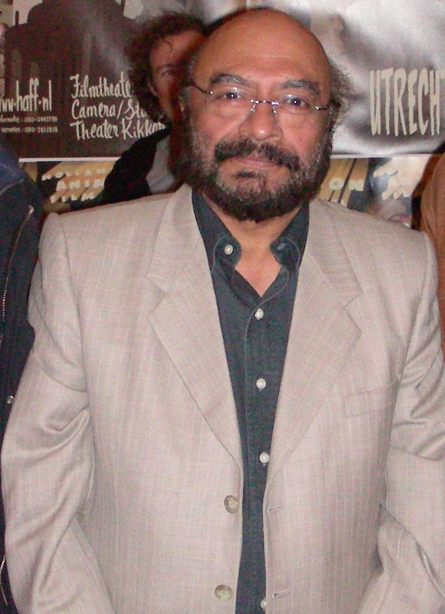 Govind Nihalani